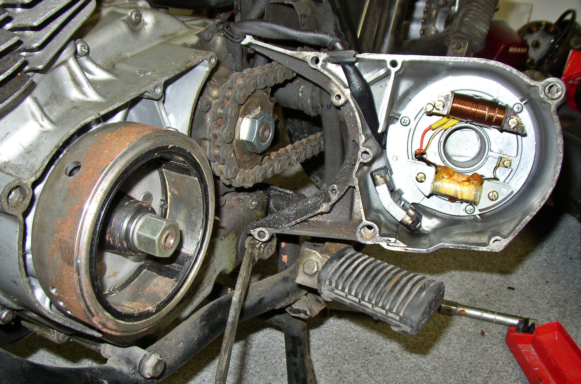 Generator from Suzuki GN400